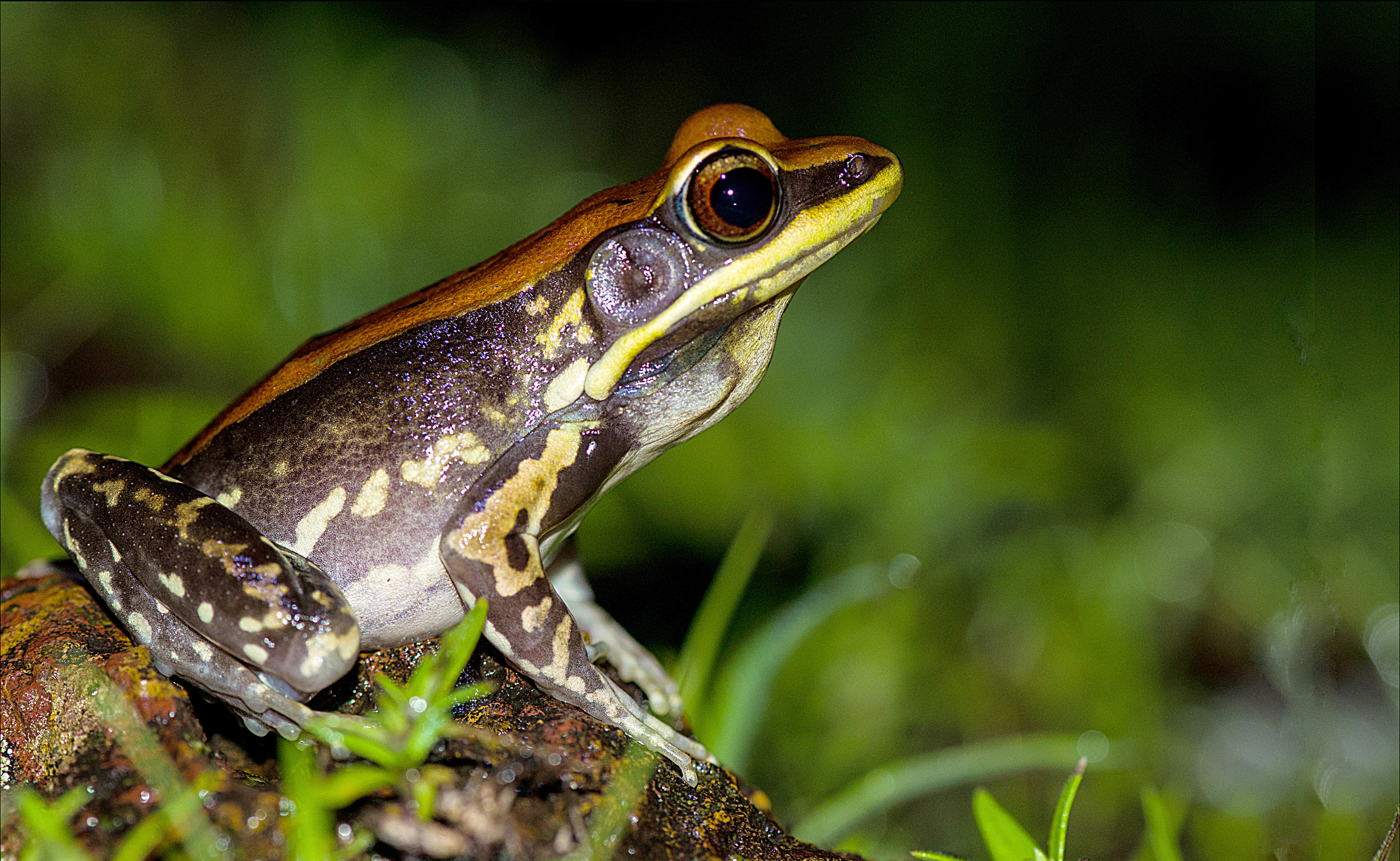 The fungoid frog or Malabar Hills frog (Hylarana malabarica) recorded from Madayippara, a laterrite hill plateau in North Kerala.